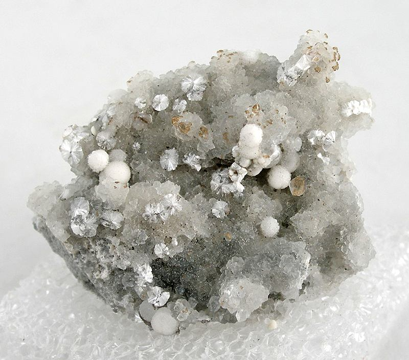 Dresserite, Strontianite Locality: Francon quarry, Montréal, Québec, Canada (Locality at ) Size: miniature, 3.2 x 2.5 x 1.7 cm Dresserite, Strontianite Dresserite to 1.2 mm, large for the species